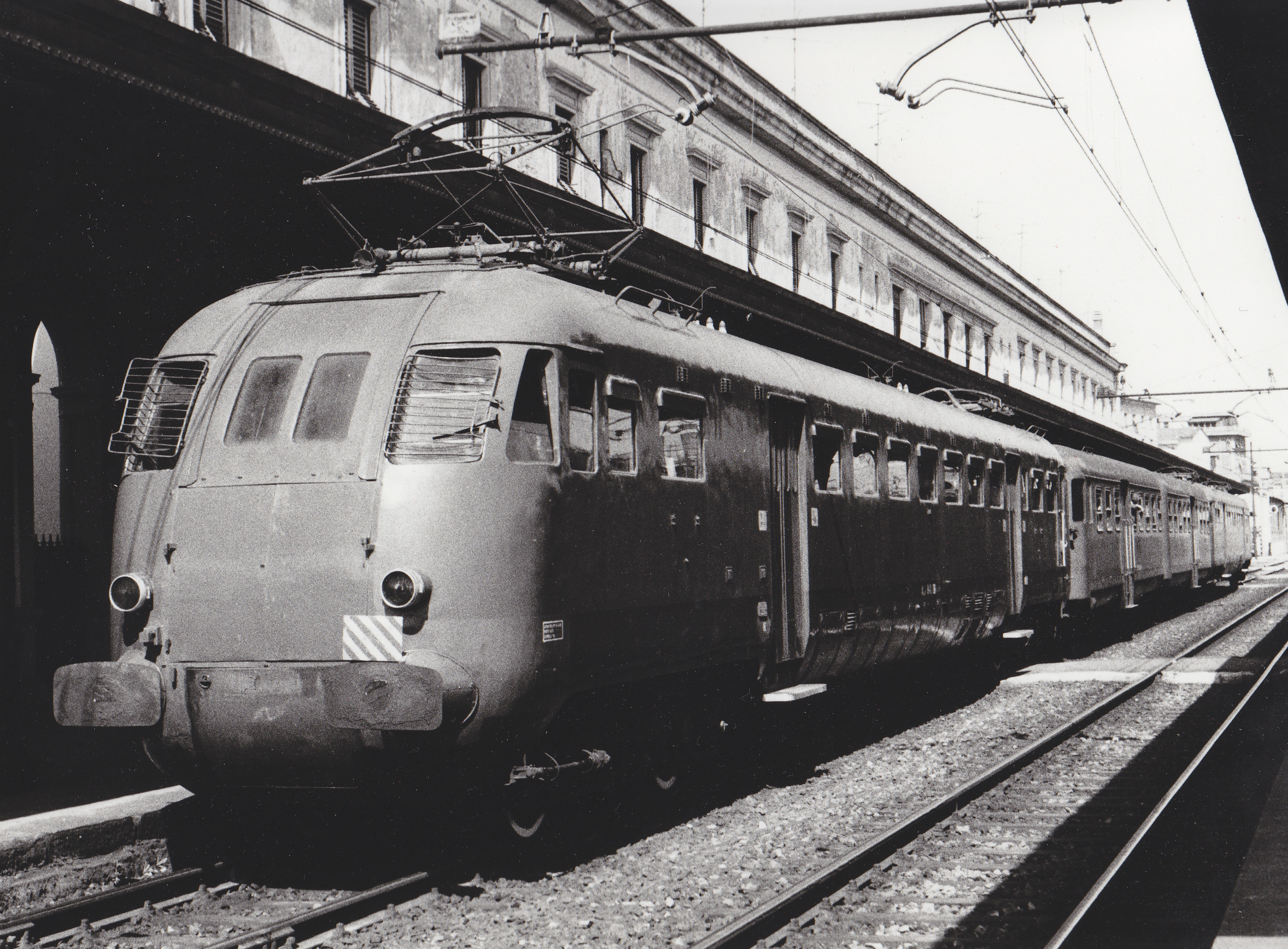 Italien Railways: FS Class ALe 840